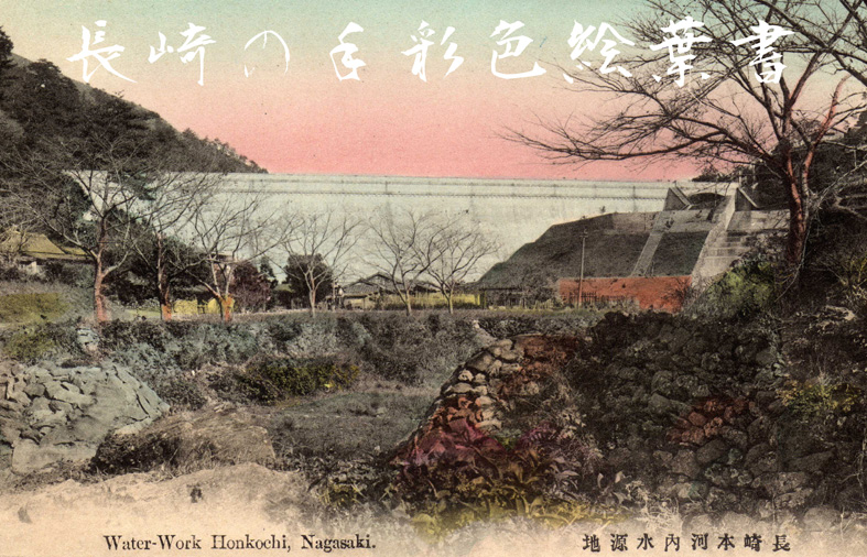 Japanese hand tinted postcard showing the Nagasaki waterworks at Honkochi